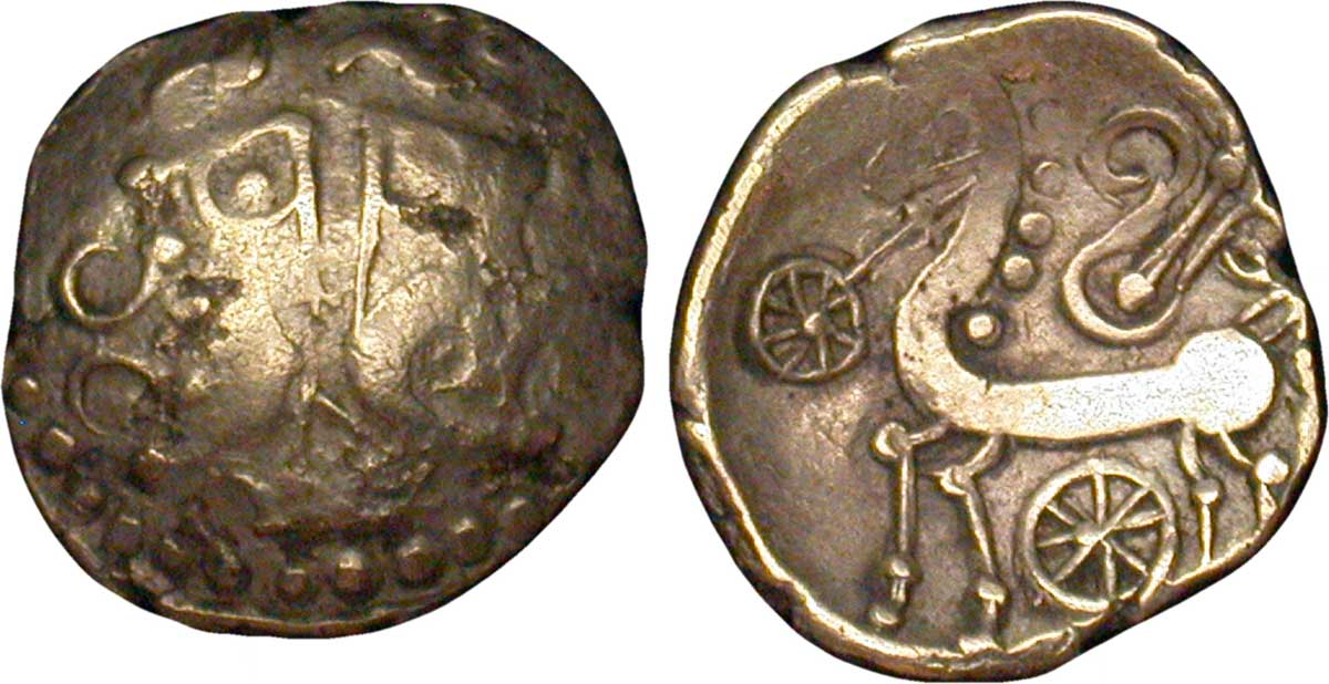 Quart de statère à la tête janiforme frappé par les Médiomatriques Date : c. 100-60 AC.